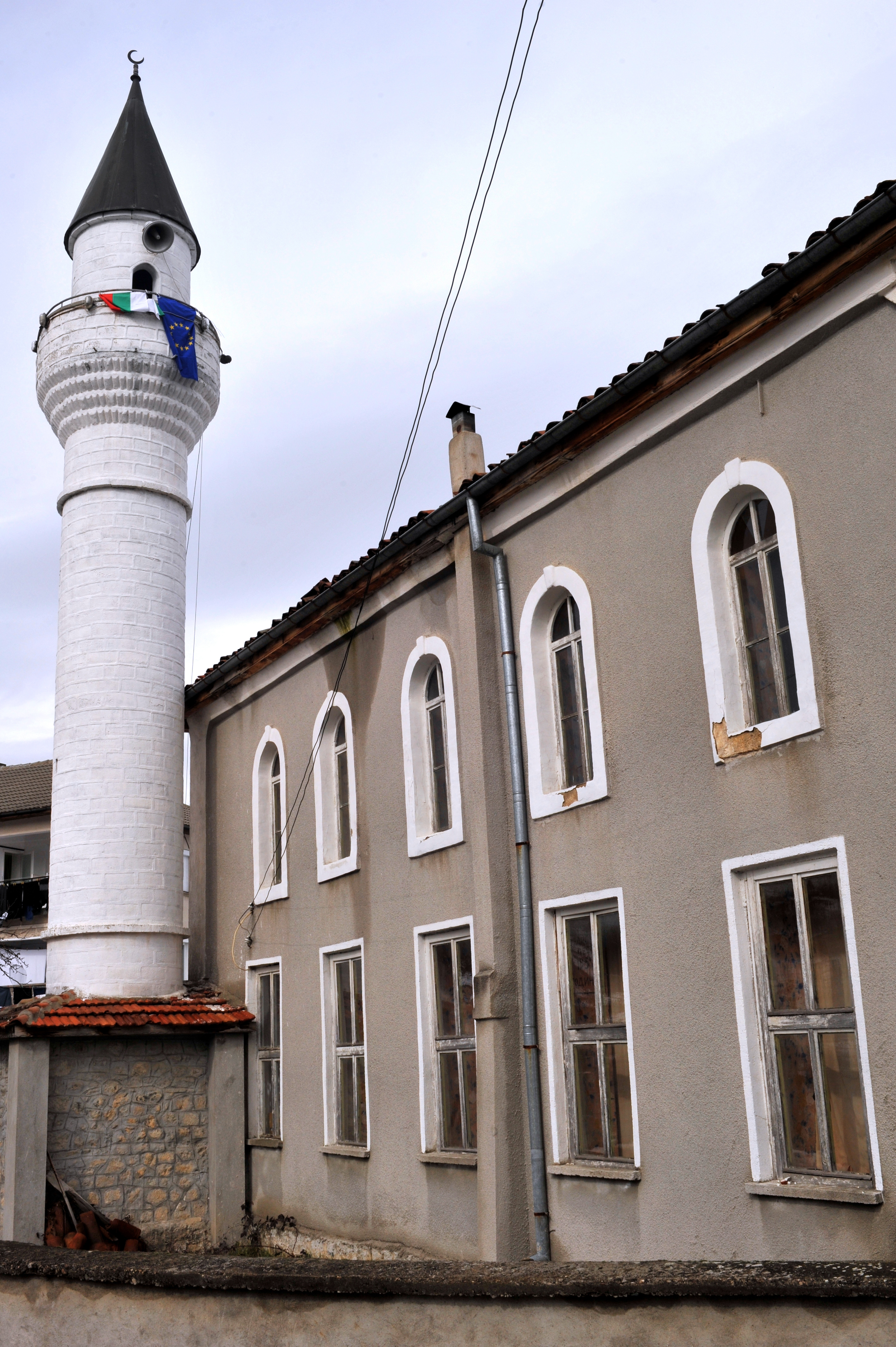 Muslim mosque - Zlatograd - Bulgaria.